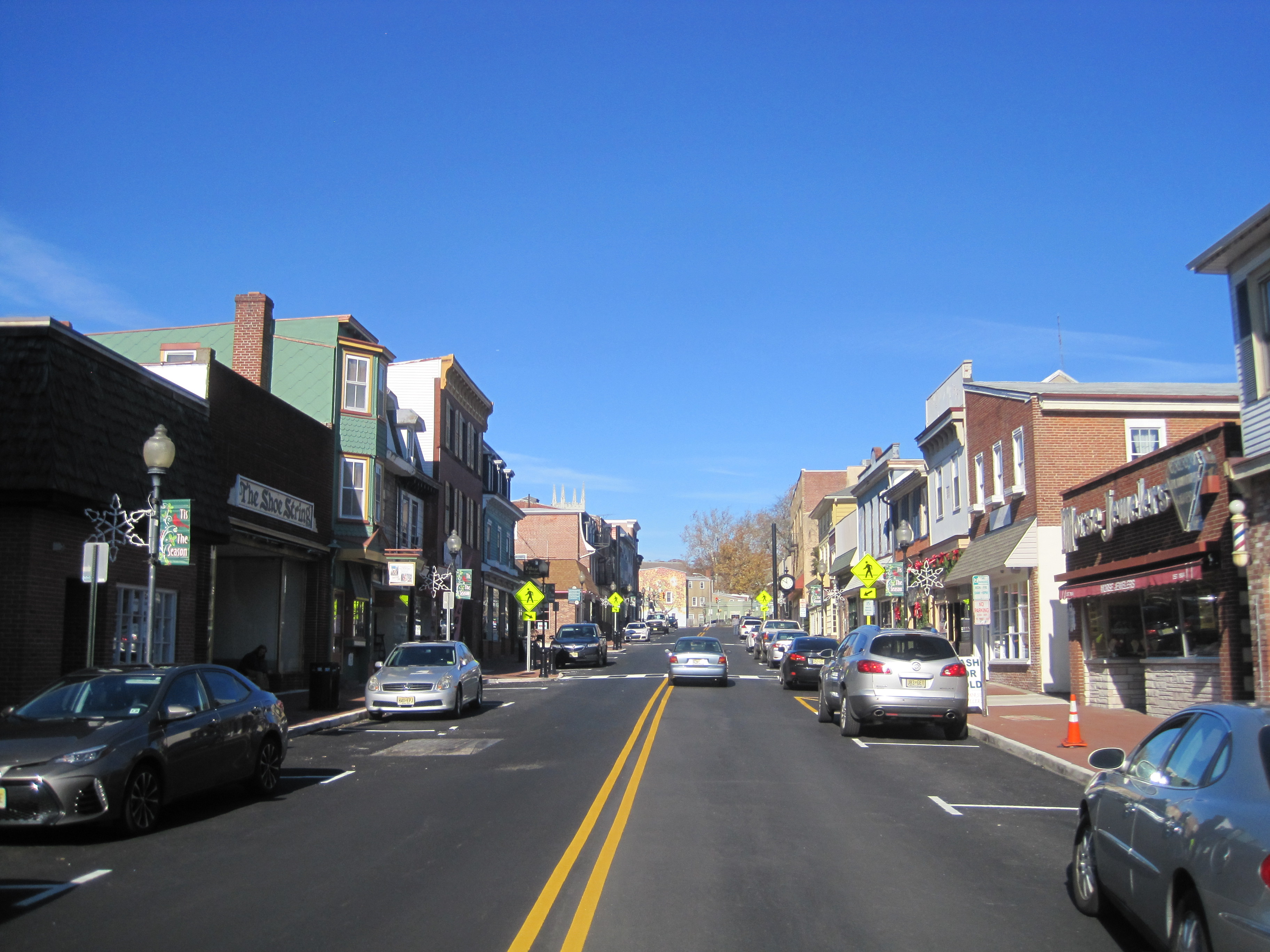 Photograph showing downtown Mount Holly, New Jersey as viewed along northbound High Street between Mill Street / Washington Street and Commerce Street / Murrell Street.